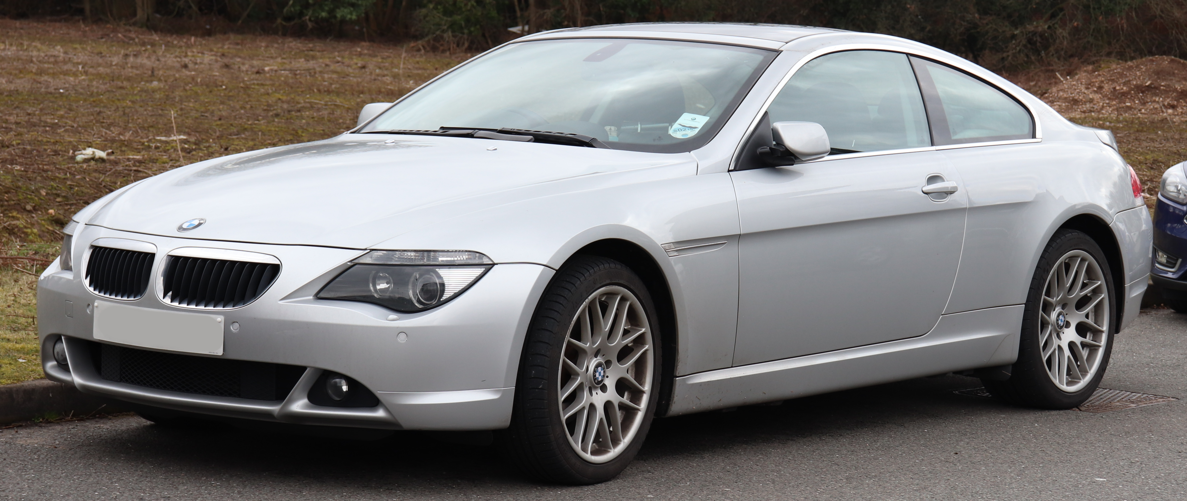 2006 BMW 630i Automatic 3.0 Front Taken in Leamington Spa